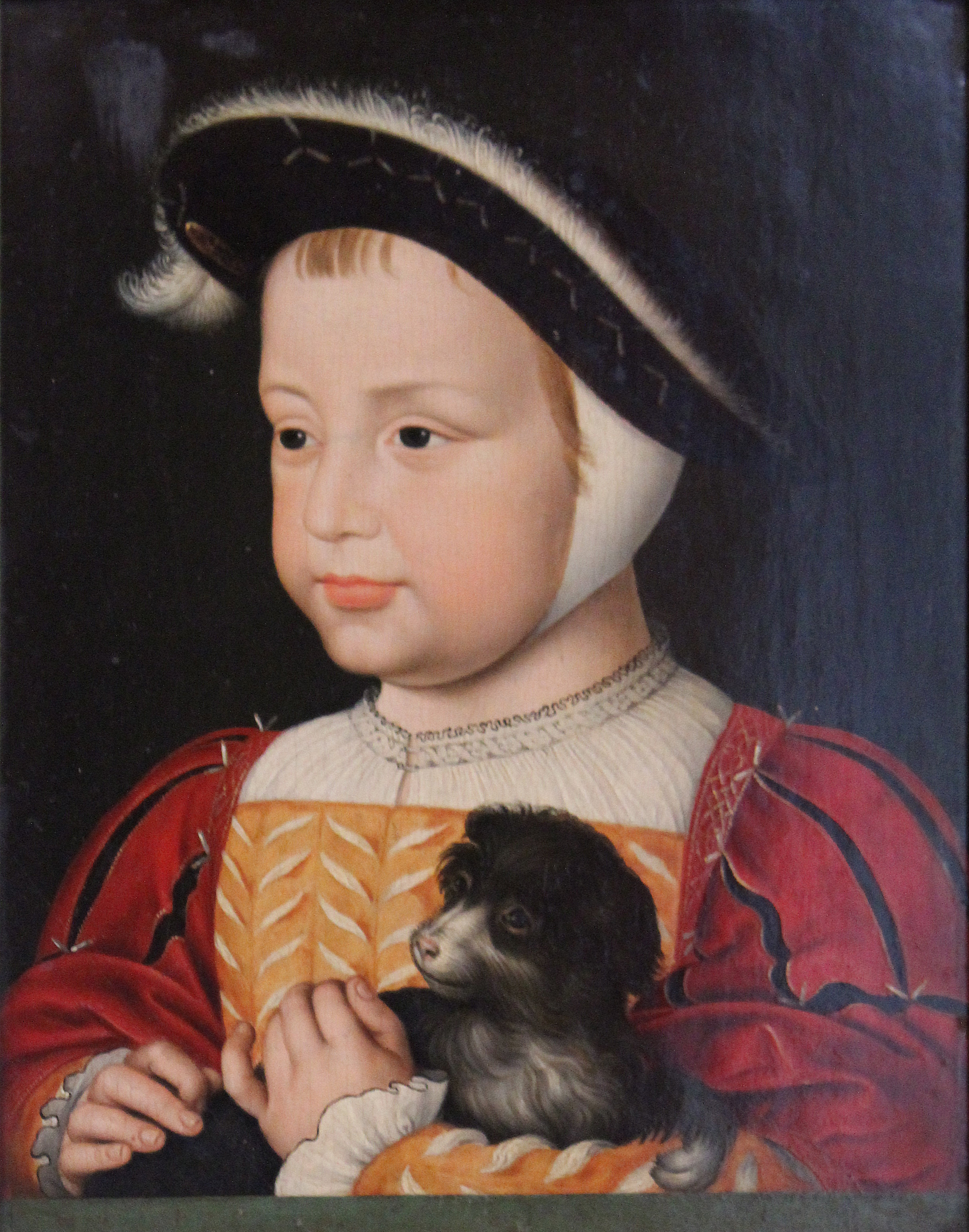 Portrait of Henry II of France (1519-1559) as child